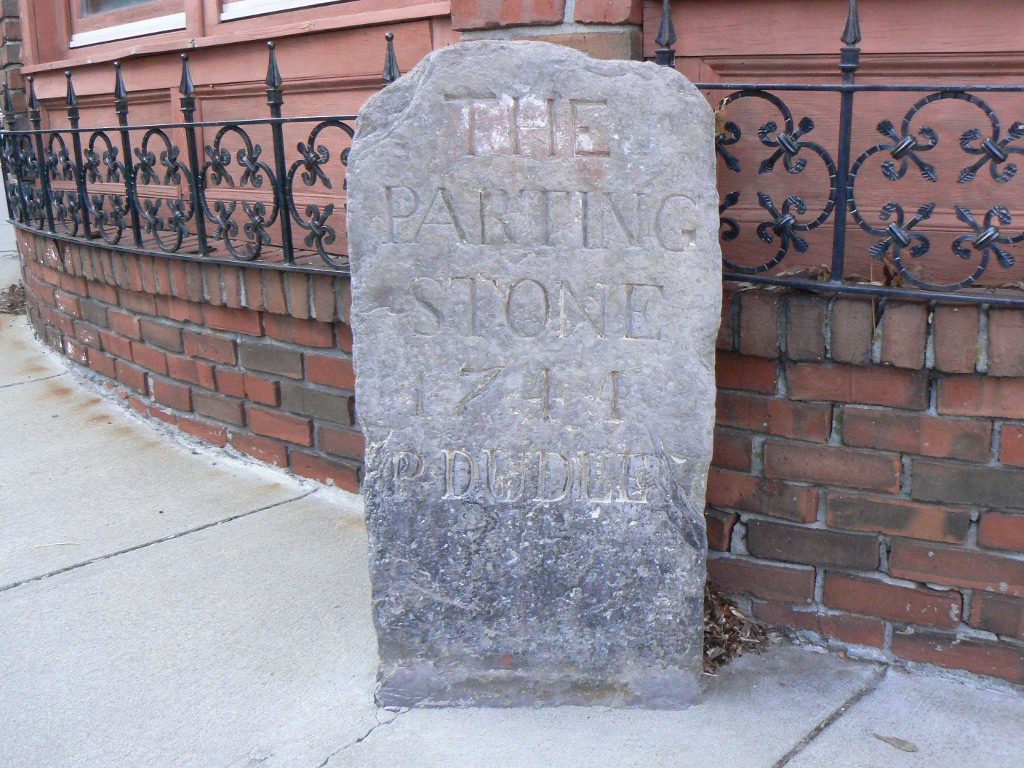 The "Parting Ways" Stone (erected 1741), part of the 1767 Milestones in Massachusetts. The stone is located in the Roxbury section of Boston.